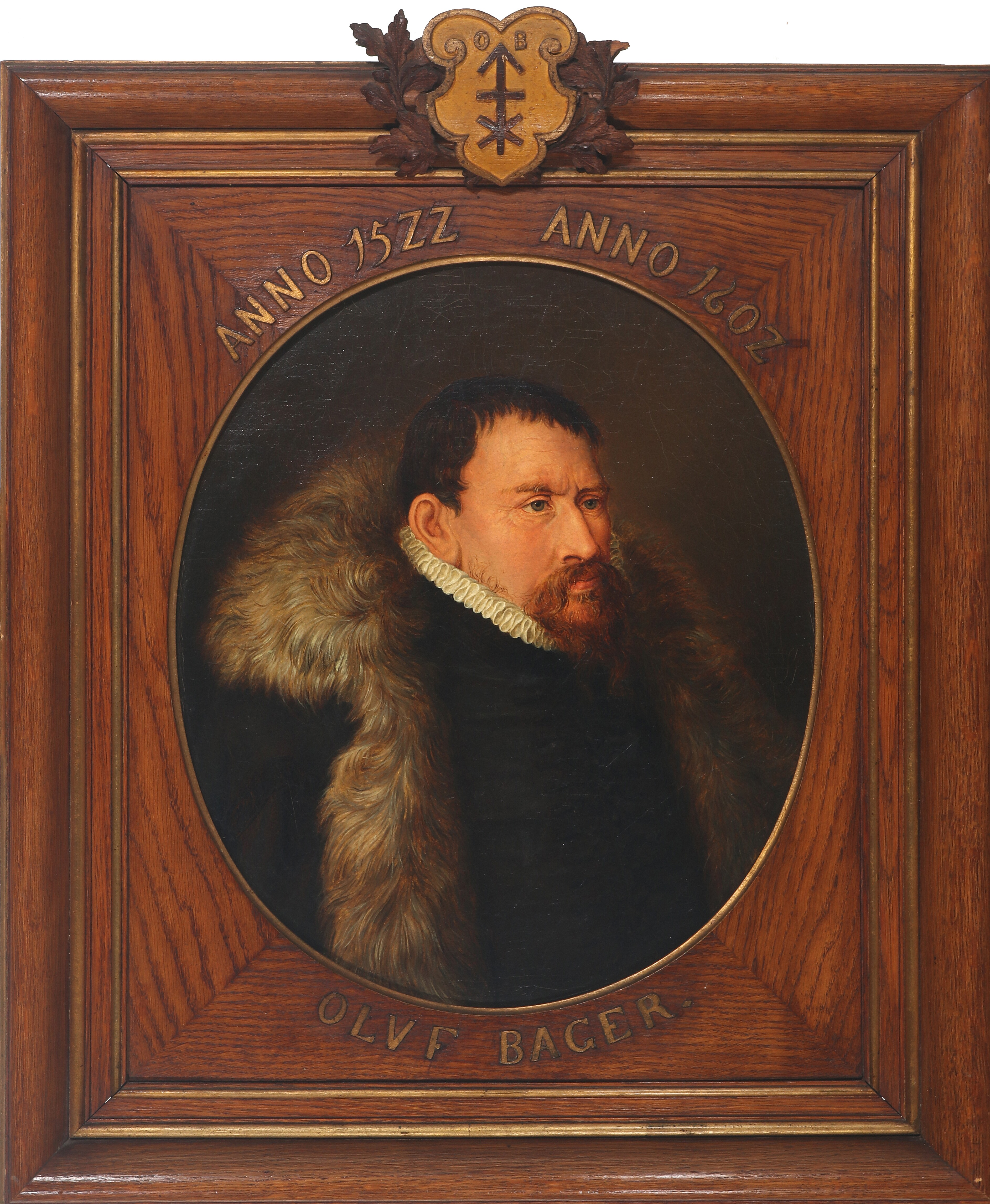 Behrends made a pair of paintings depicting Oluf Bager and his wife Margrethe. He typically based his work on funerary art and old prints. The birthyear for Bager is carved as 1522, but most sources agree on 1521.